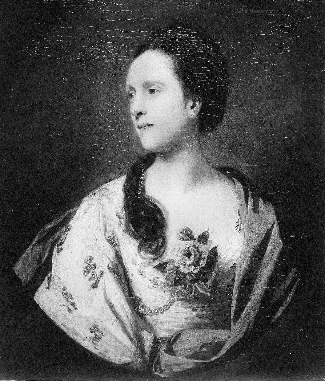 Anne Vansittart, Lady Palk (d.1788), wife of Sir Robert Palk, 1st Baronet (1717-1798) of Haldon House, Devon. Portrait by Sir Joshua Reynolds (1723-1792), 76.8 x 65.1 cm (30 1/4 x 25 5/8 in. Museum of Fine Arts, Boston, USA. Provenance: Commissioned by sitter, then by descent to Palk, Barons Haldon. About 1891, Hon. Edward Arthur Palk, Testwood House, Totton, Hampshire, England; 1895, sold by Palk to Lawrie and Co., London; 1895, sold by Lawrie to Arthur Tooth and Sons, London, Paris and New York; 1895, sold by Arthur Tooth and Sons to the MFA for $5000